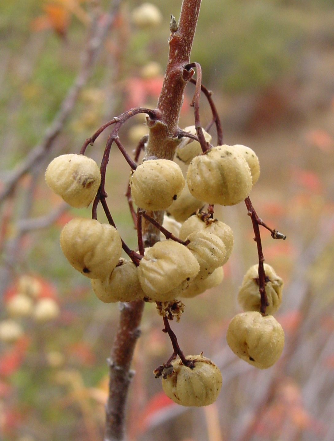 Toxidendron diversilobum (syn. Rhus diversiloba) berries, Santa Monica Mountains Recreation Area